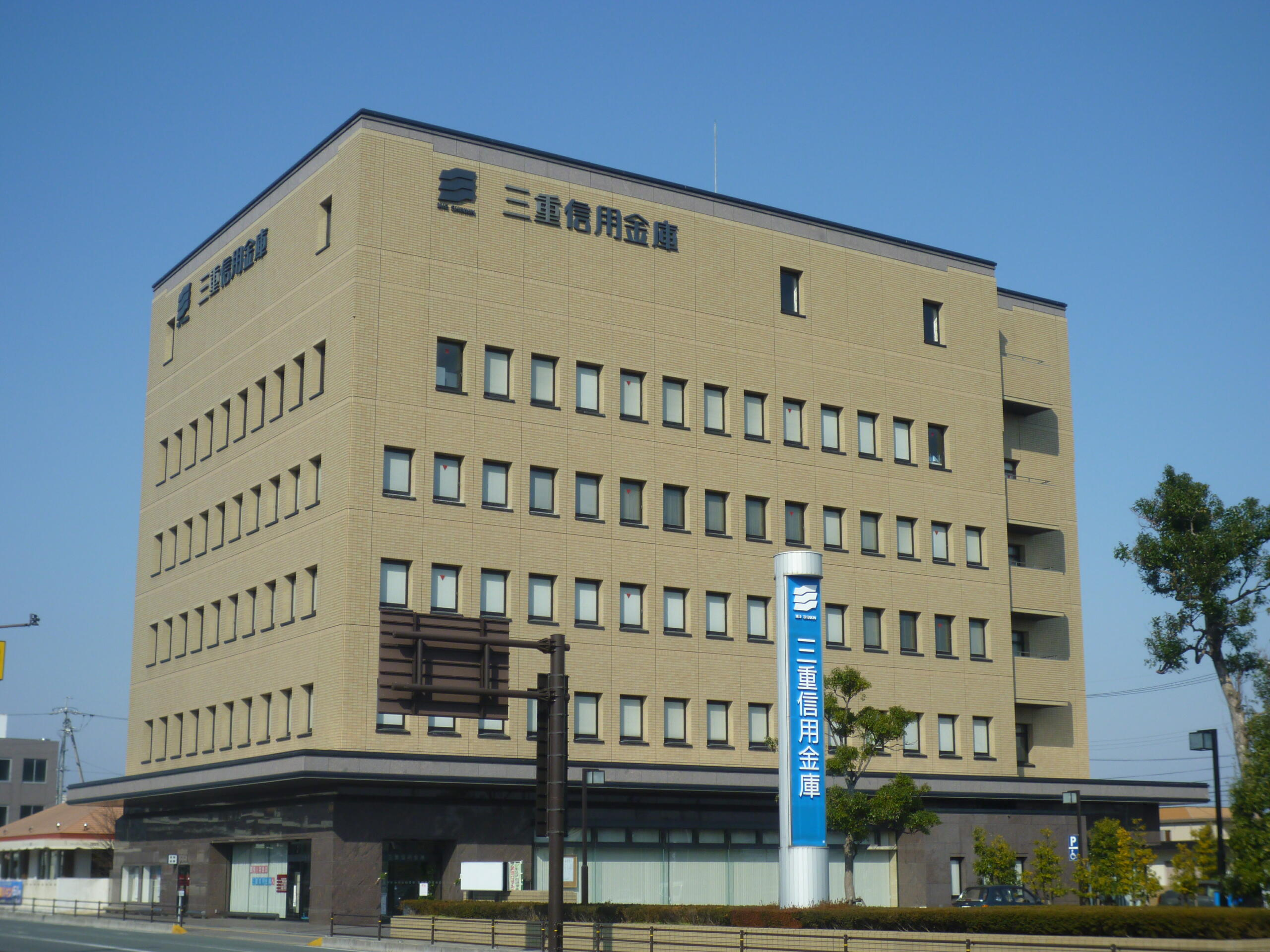 Head Office of The "Mie Shinkin Bank" in Matsusaka, Mie, Japan.